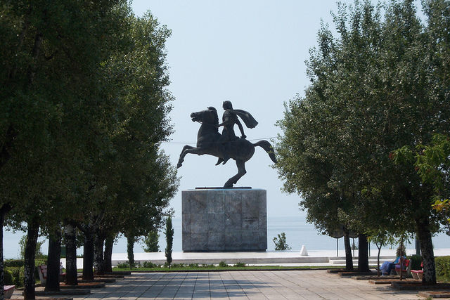 The statue of Alexander the Great in Thessaloniki, Greece.